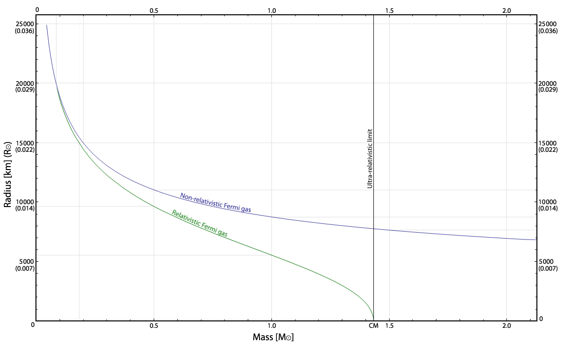 Mass–Radius relations for White Dwarfs[1] consisting of a cold Fermi gas with A/Z=2. "CM" denotes the Chandrasekhar mass limit.